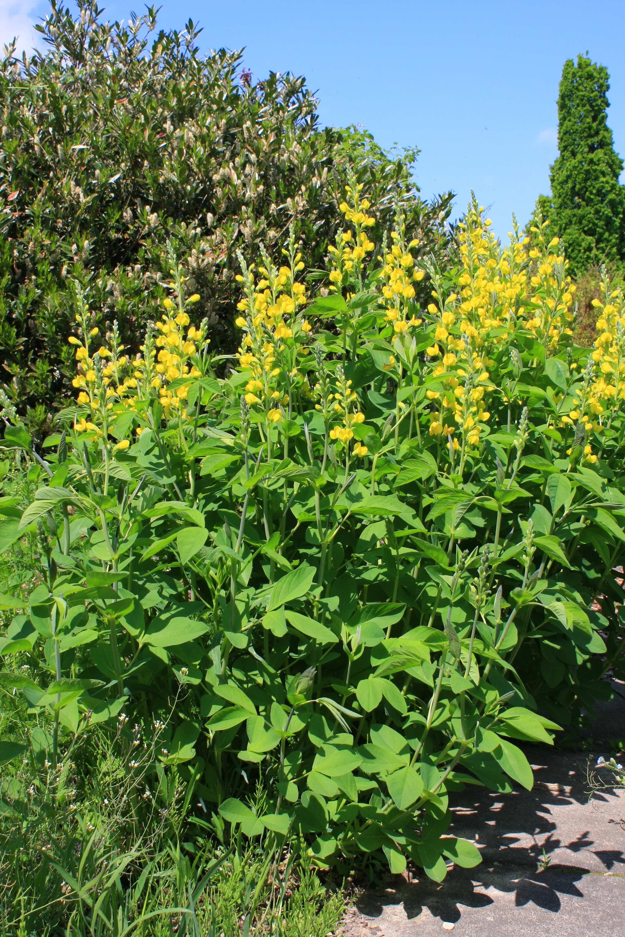 Unidentified Faboideae